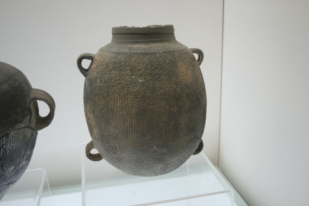 Xia Dynasty pottery jar1